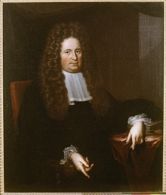 Jacob Boreel (1630-1697) oil on canvas 48,5 x 41 cm 1675 - 1699